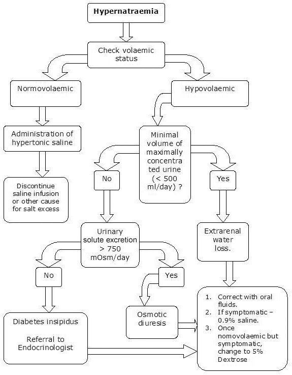 Management of hypernatremia